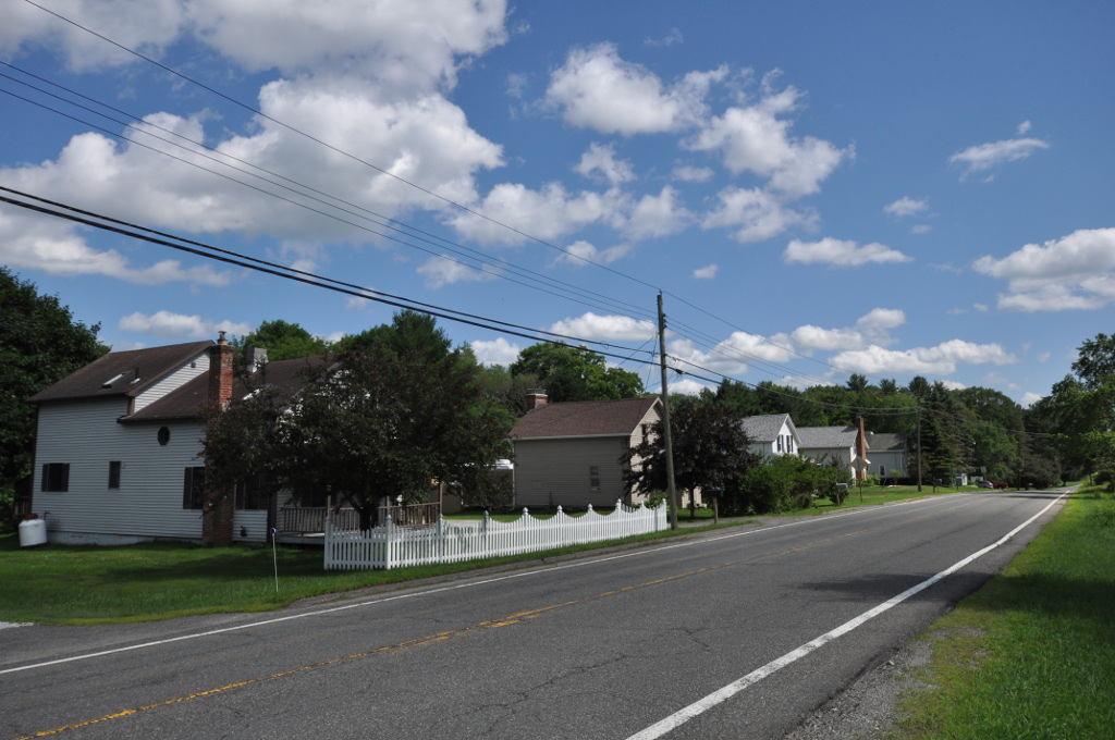 Richmond Furnace Historical and Archeological District, Richmond, Massachusetts. Worker housing on Rt. 49.